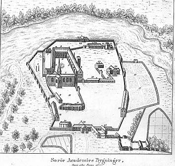 Resens Atlas fra 1677 over Sorø Akademies bygninger. et firfløjet klosteranlæg med fratergang samt klostermølle og kirkespiret der blev opført år 1623.